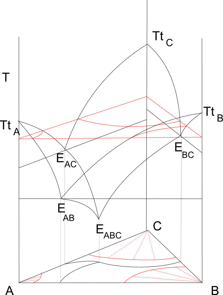 Phase diagrams/ Phase diagram ABC 1